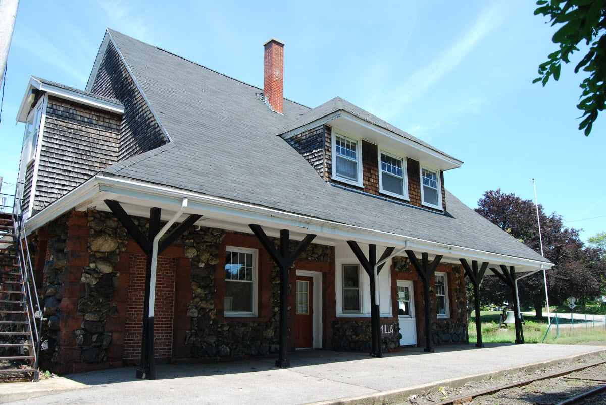 Lansing Millis Memorial Building, Millis, Massachusetts